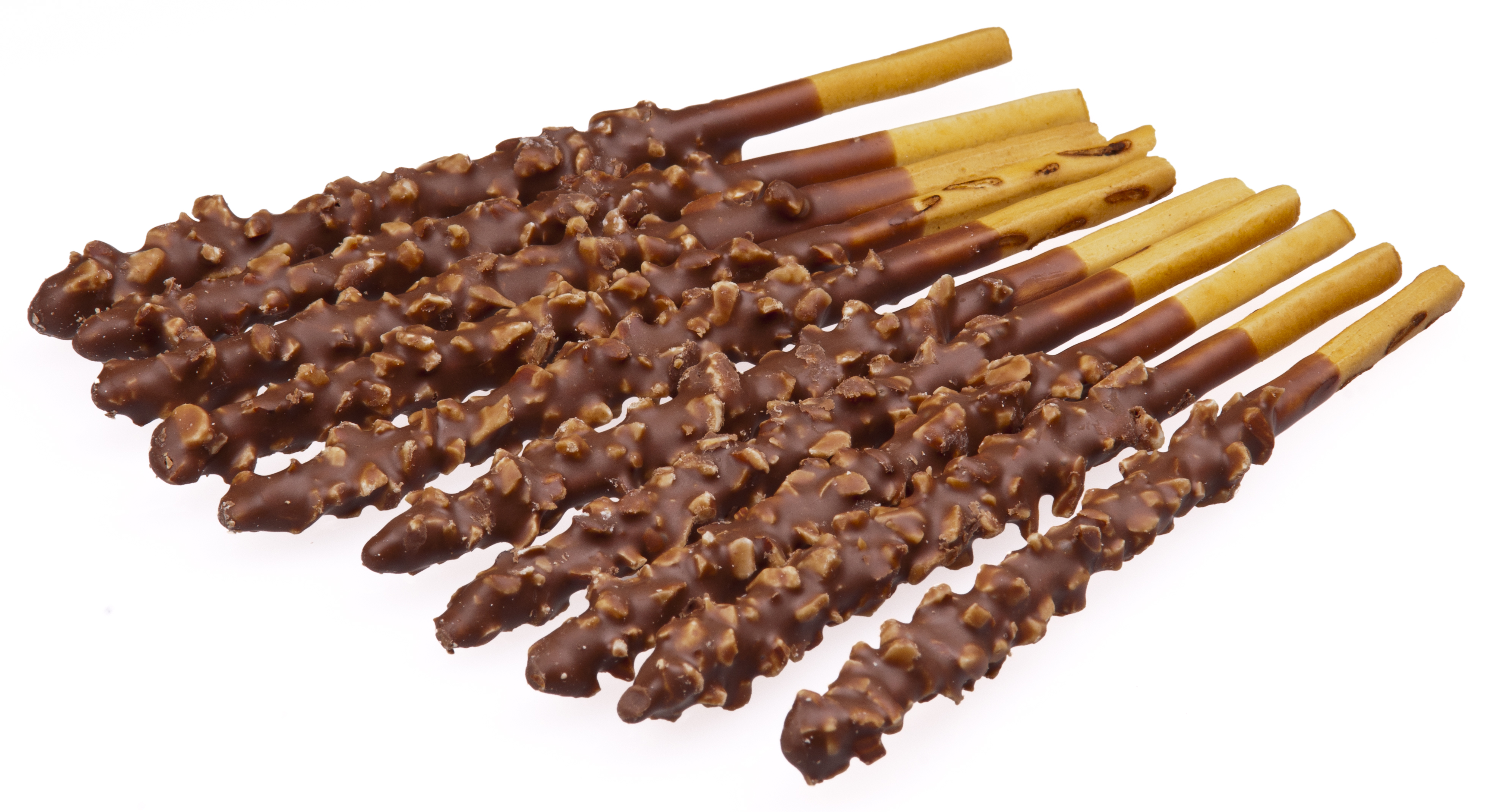 Pepero Almond sticks. The Korean version of Pocky.